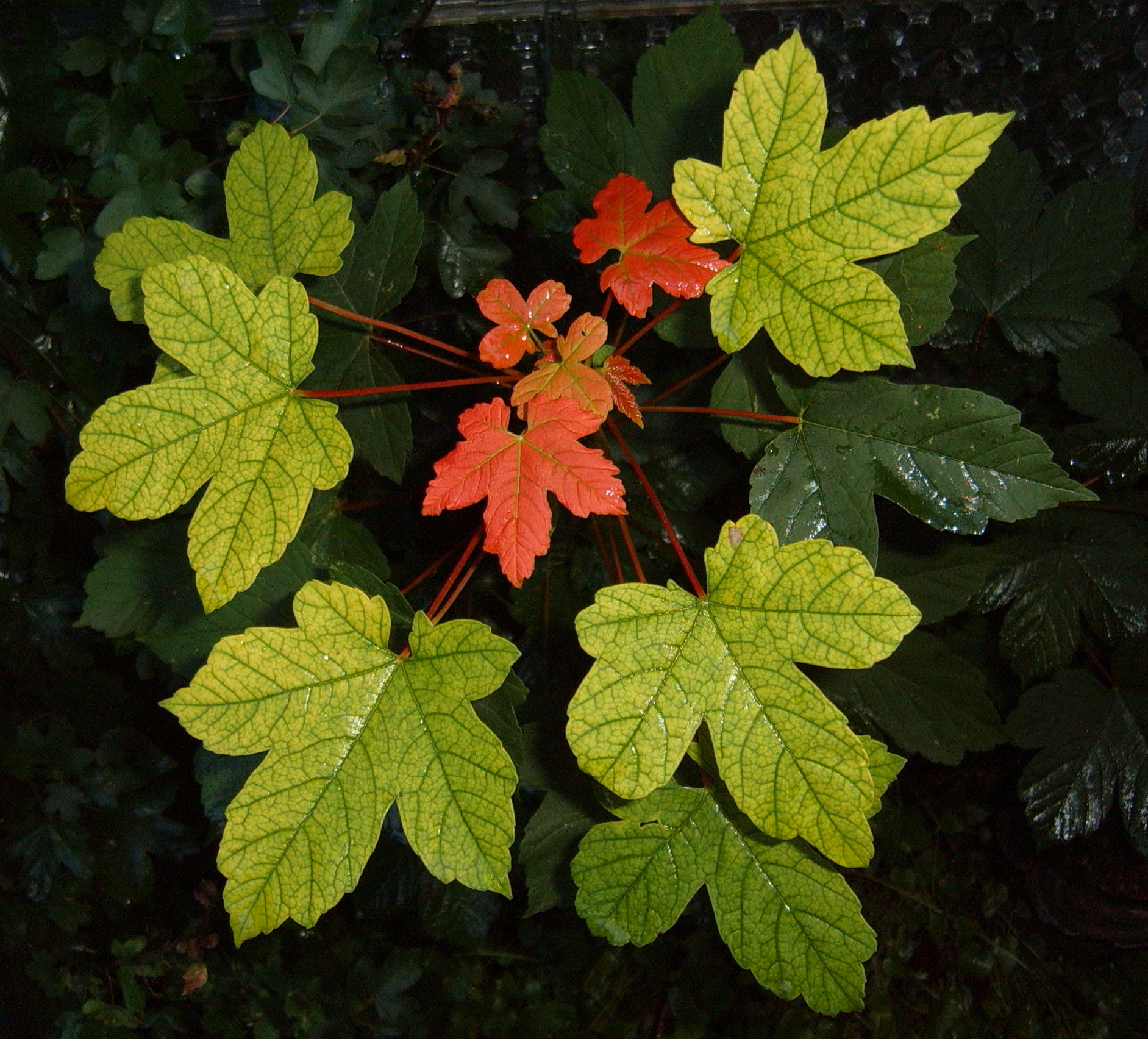 Sycamore Maple leaves